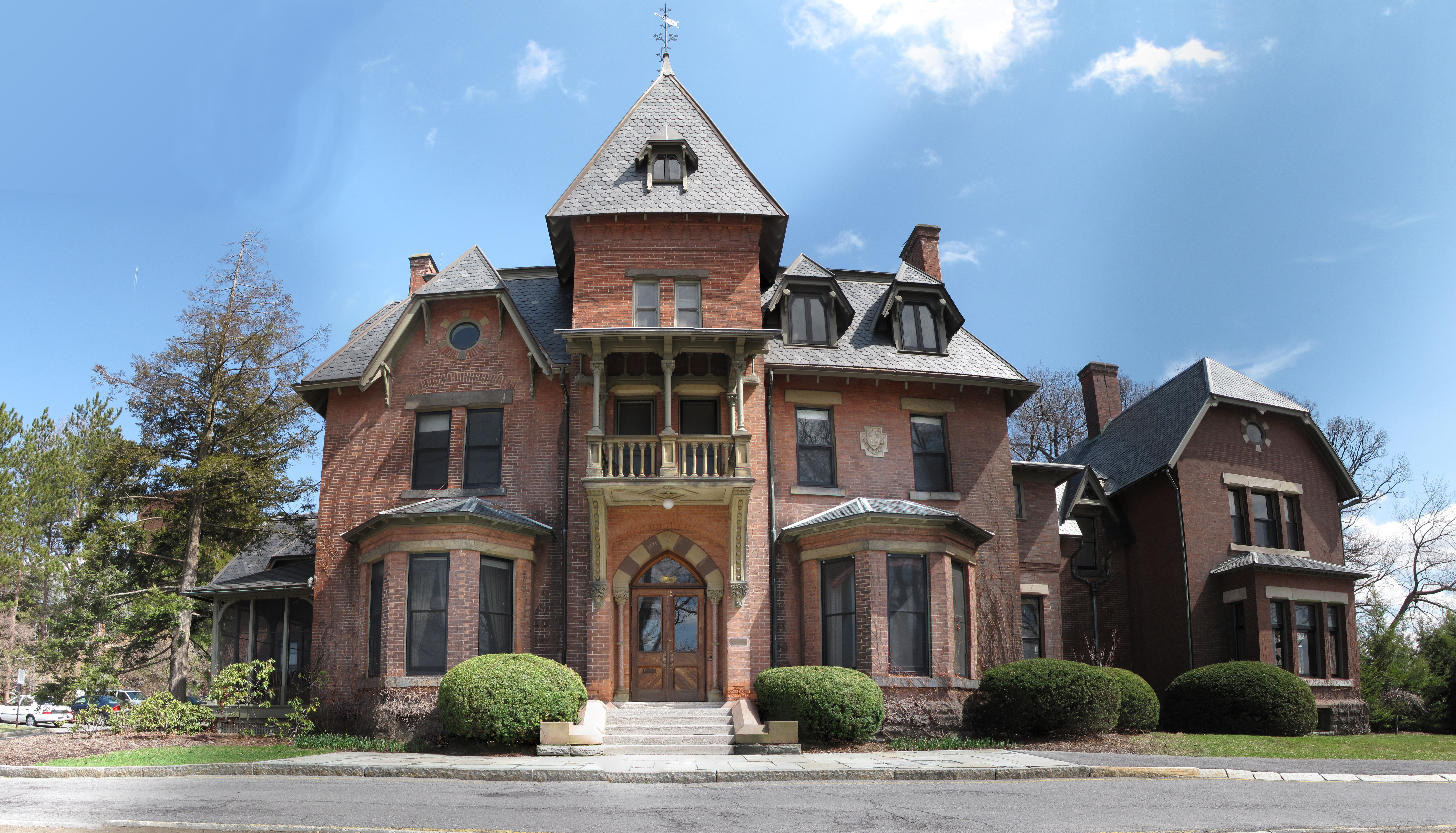 The AD White House at Cornell University. This image was created by stitching together about a dozen images taken on April 5th, 2009.